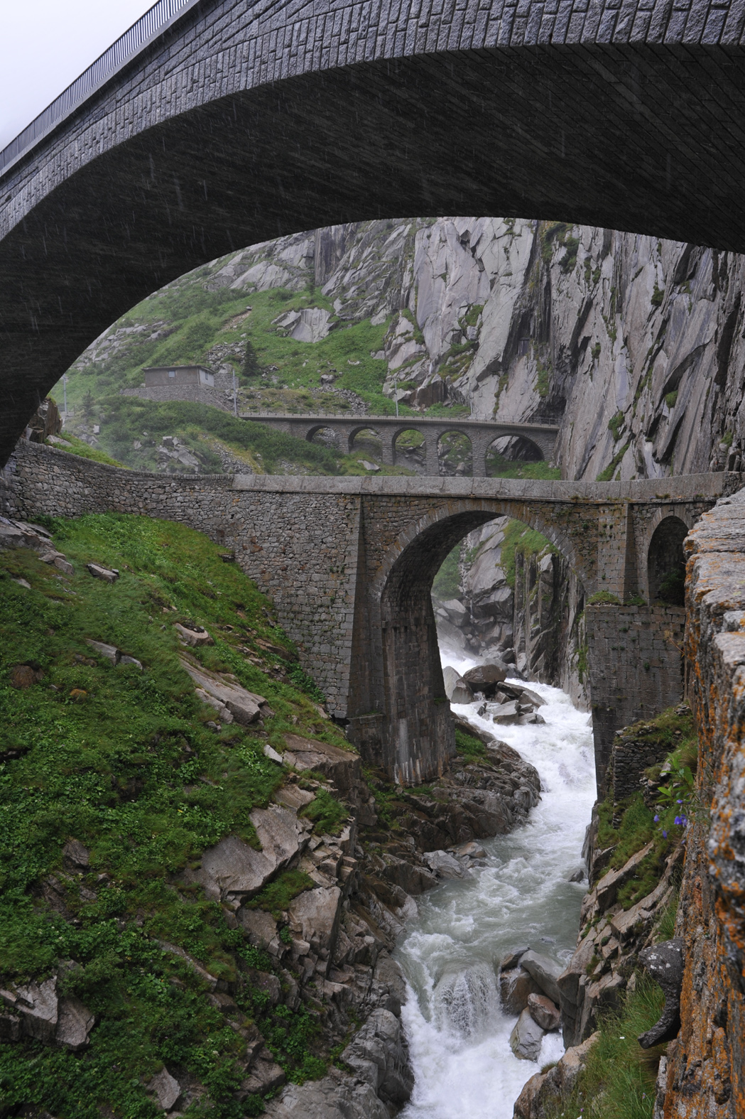 Devil's bridges in the Schöllenen canyon; Uri, Switzerland. From front to background: New devil's bridge (1956), northern base of the first stone arch devil's bridge (1595), second devil's bridge (1830), leaning bridge of the Schöllenen railway (1917).